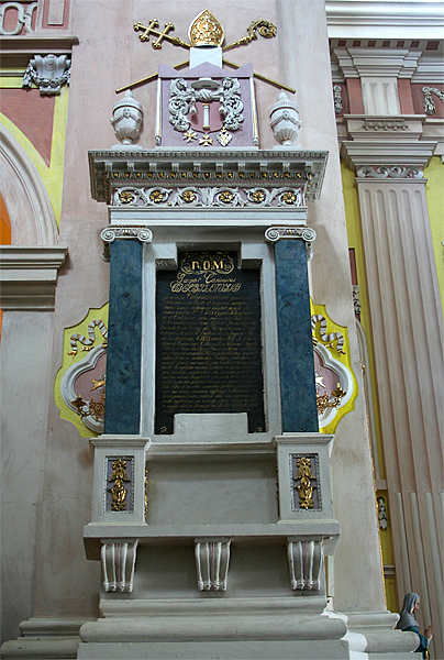 epitaph in the cathedral